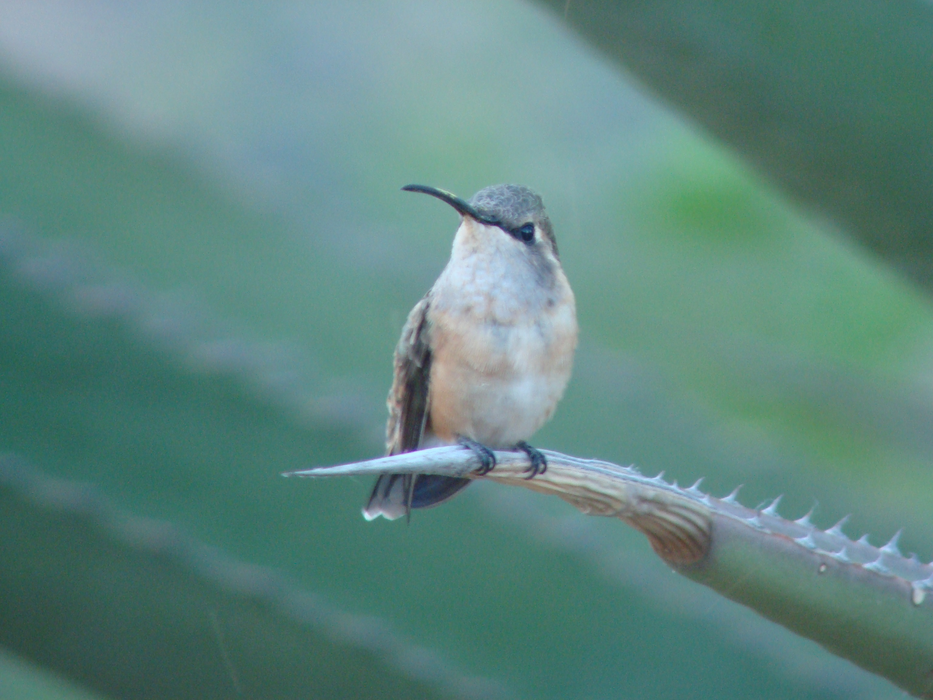 Lucifer Hummingbird Calothorax lucifer, Ash Canyon, Arizona. Please acknowledge any use of this photo to Caleb G. Putnam